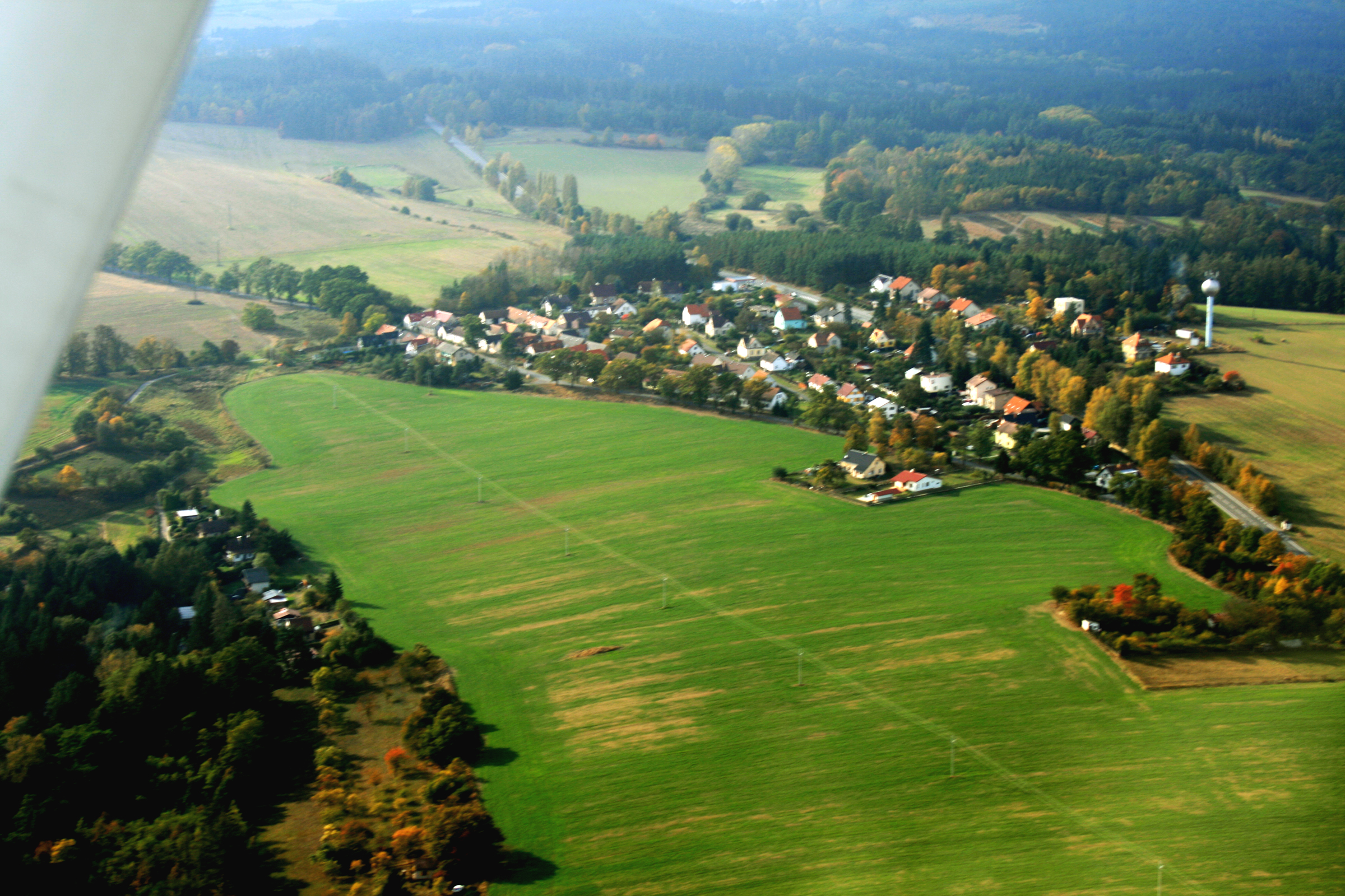 Air photo of the village Staré Sedlo, part of Orlík nad Vltavou municipality in Písek District, South Bohemian Region, the Czech Republic